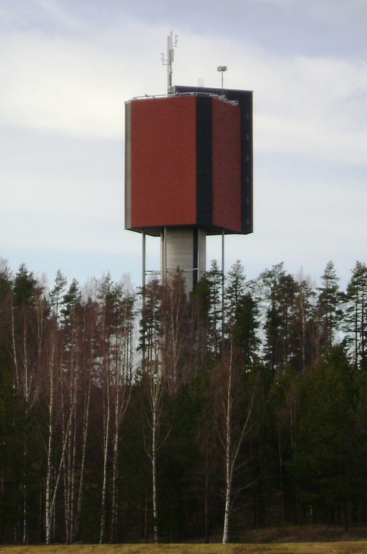 Hyrylä water tower in Tuusula.